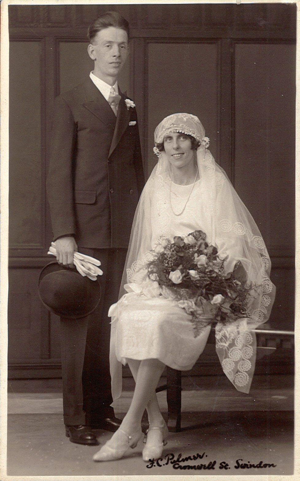 Portrait photo of a wedding couple at Swindon, Wiltshire, England in the 1920s or 30s. From a postcard deposited at Swindon Record Office and scanned and uploaded by them to Flickr. The photographer was Fred C. Palmer of Tower Studio, Herne Bay, Kent ca.1905-1916, and of 6 Cromwell Street, Swindon ca.1920-1936. He is believed to have died 1936-1939. Border The remaining border of this image is important for researchers of this photographer. Some photographers trimmed their images more than others, and Palmer has a reputation for producing smaller postcards than other early 20th century UK photographers. He took his own photos, developed them in-house onto postcard-backed photographic paper and trimmed them himself. It is worth adding that during hand-developing the border is actively masked with equipment which both crops the picture and causes the white frame or border to appear on the paper. This frame is part of the design and is one of the reasons why the quality of Palmer's work is so interesting, and why there is an article and category for him on English Wiki. Researchers need to see exactly where the edge of the postcard is. Thank you for taking the time to read this.